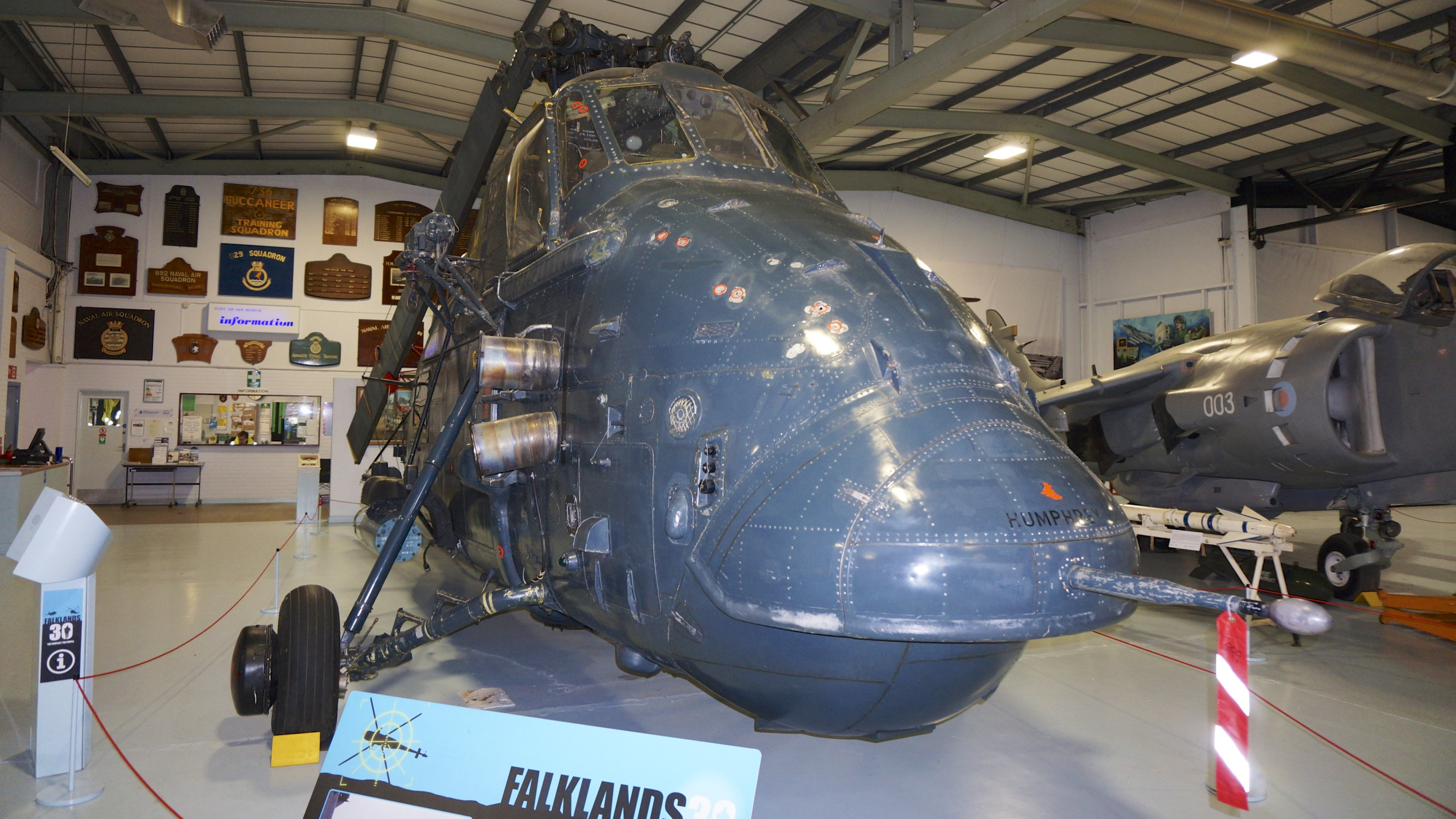 Royal Navy. Fleet Air Arm Museum . Yeovilton. Somerset. UK Wessex HAS.3 (XP142) Humphrey Humphrey is one of the most famous aircraft of the Falklands Conflict and was the helicopter stationed aboard the destroyer HMS Antrim. Antrim was one of several ships sent to retake the Islands of South Georgia, as part of Operation Paraquat. On the 21st April Humphrey led two other Wessex HU.5 helicopters onto the Fortuna Glacier to drop Special Forces troops with orders to observe Argentinean positions at Grytviken. The weather was appalling and deteriorated, forcing the troops to request evacuation. Using its radar to guide them through the storm Humphrey led the helicopters back to collect the troops. Blizzard conditions caused the other helicopters to crash as they tried to take off from the glacier. Humphrey made a return trip to rescue all the troops and crew. On the 23rd April Humphrey was back in action, locating and retrieving more Special Forces troops from their disabled boat. The Argentinean submarine, Santa Fe, was reported in the area. On the 25th April Humphrey was sent out on patrol and spotted the Santa Fe on the surface. Humphrey’s crew attacked with depth charges damaging the submarine. Helicopters from other ships joined the attack with torpedoes and AS.12 missiles, causing Santa Fe to be abandoned. By May Antrim had joined other ships to assist with the landings on the main Falkland Islands. She was attacked by Argentinian Dagger jets that strafed her with their canons. Humphrey was damaged by splinters from the shells, making many holes that are still visible. These holes were patched with tape and Humphrey carried on flying.